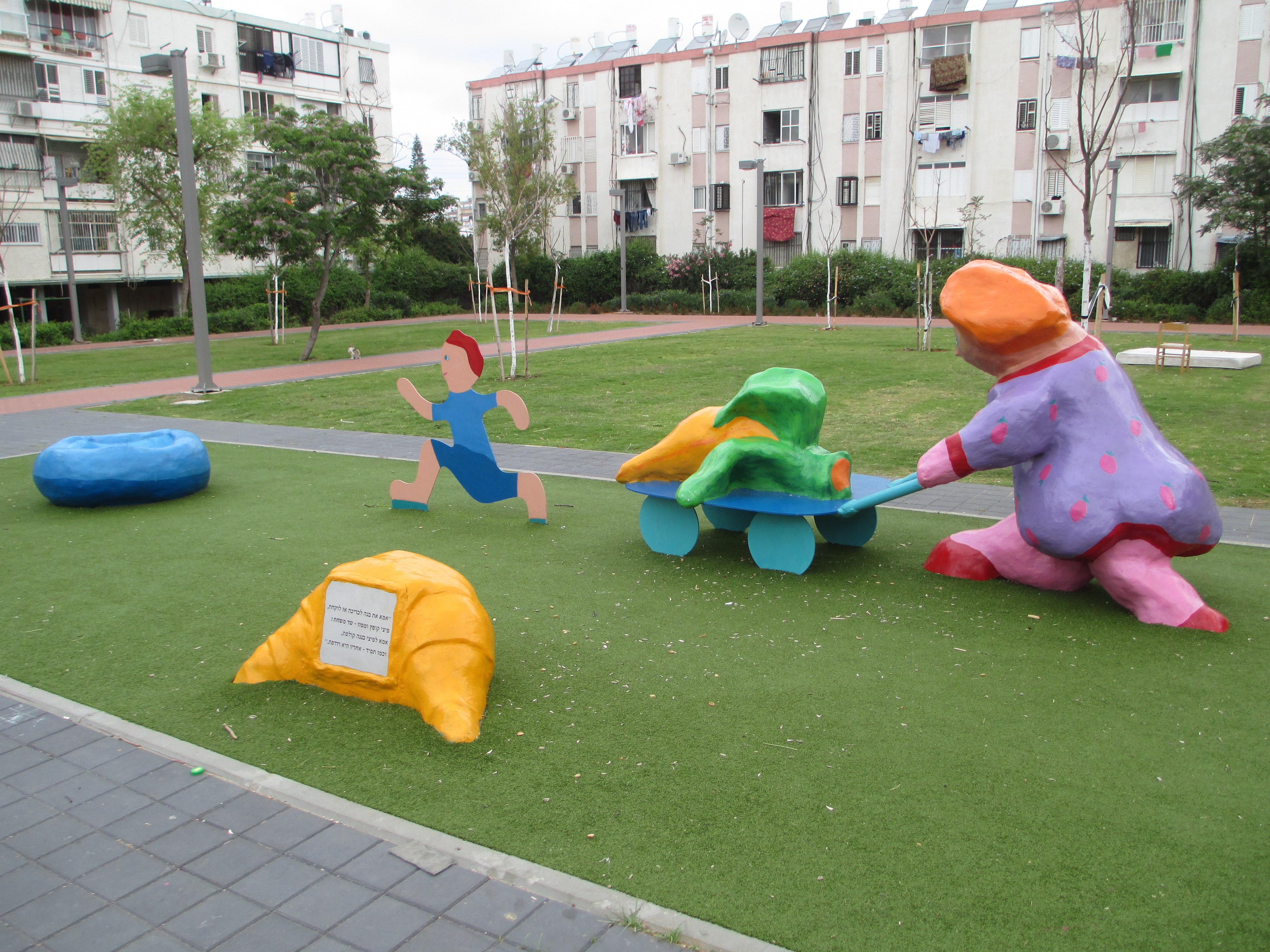 Tricks in the Plate, story garden in Holon